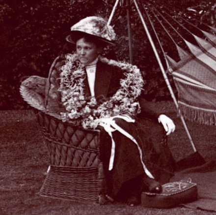 Edith Marian Begbie at Dorset Hall, Merton Park c.1912